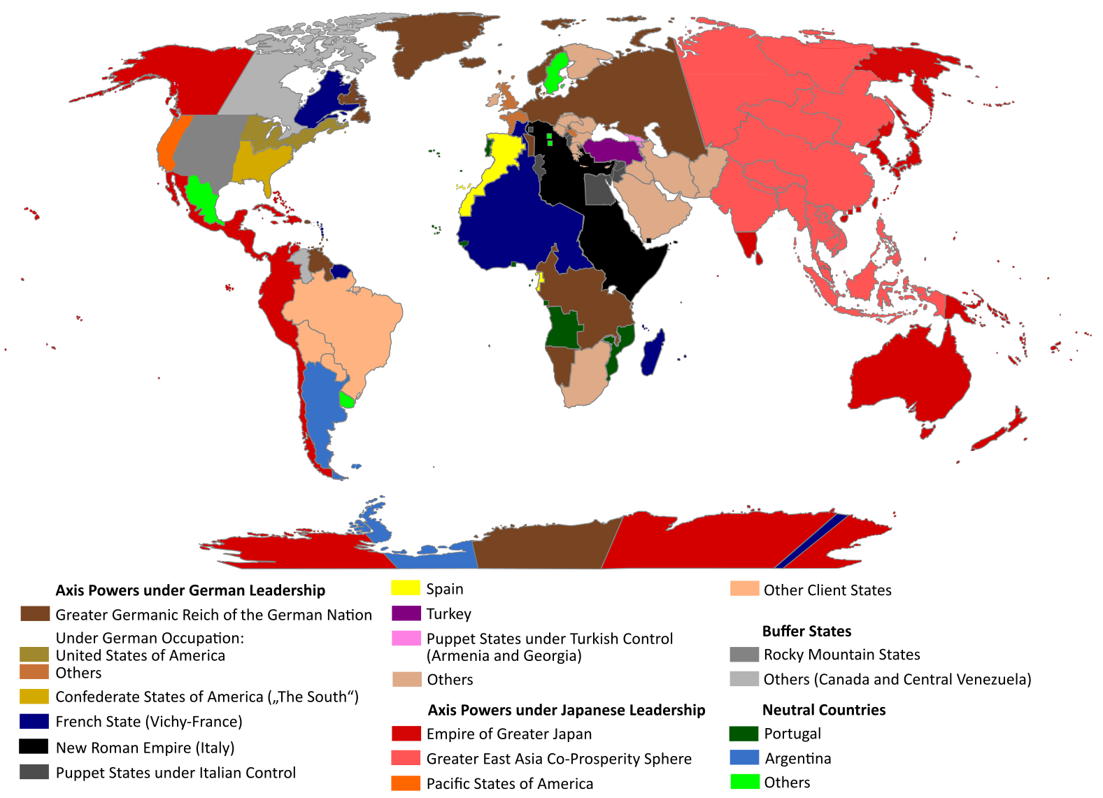 "The Man in the High Castle" is an alternate history novel by Philipp K. Dick. It is set in a world in which the axis powers have won World War II. This map shows the division of the world between Nazi-Germany (dark brown), Japan (dark red) and their respective allies.